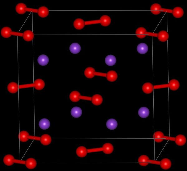 Structure of K2O2 (potassium peroxide). Red atoms are oxygens. Journal = ZEITSCHRIFT FUER ANORGANISCHE UND ALLGEMEINE CHEMIE Year = 1992 Volume = 610 Page = 64-66 Title = Verfeinerung der Kristallstruktur von K2O2 Authors = Bremm T., Jansen M.